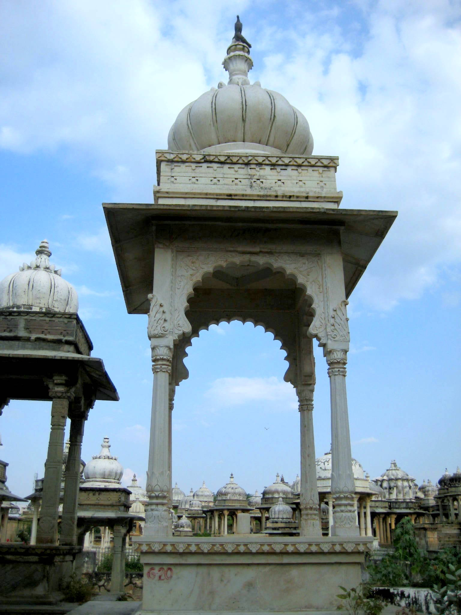 1919 Cenatoph of Pannalal at Mahasatiya in Udaipur